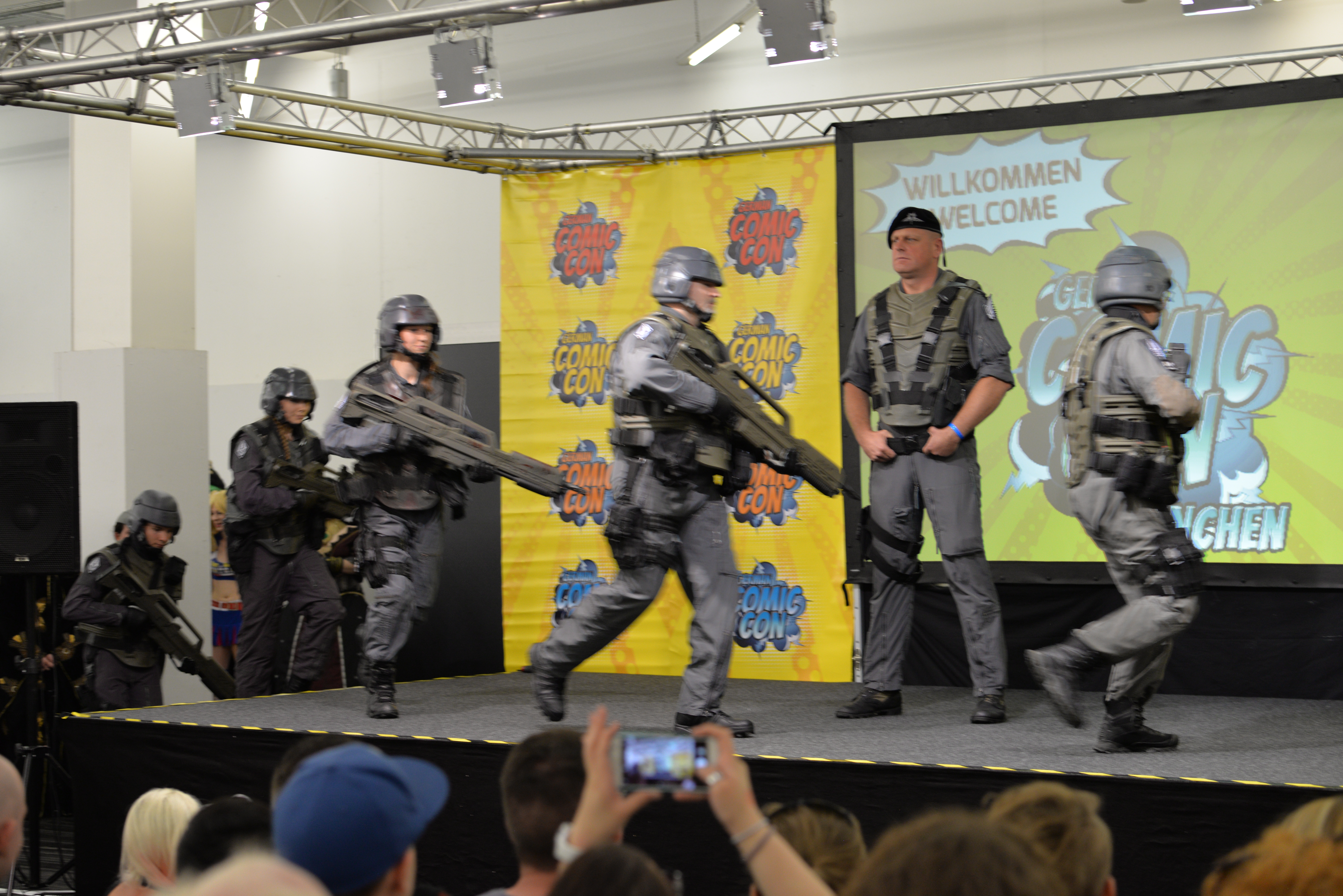 The cosplay group Starship Troopers German Division performs the cosplay show at German Comic Con 2017 in Munich (Germany) Whould you like to knwo more?